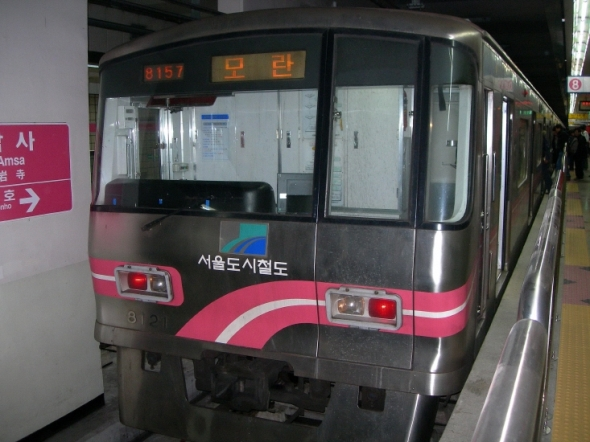 Stop at the Amsa Station. train Is Smrt8121F.